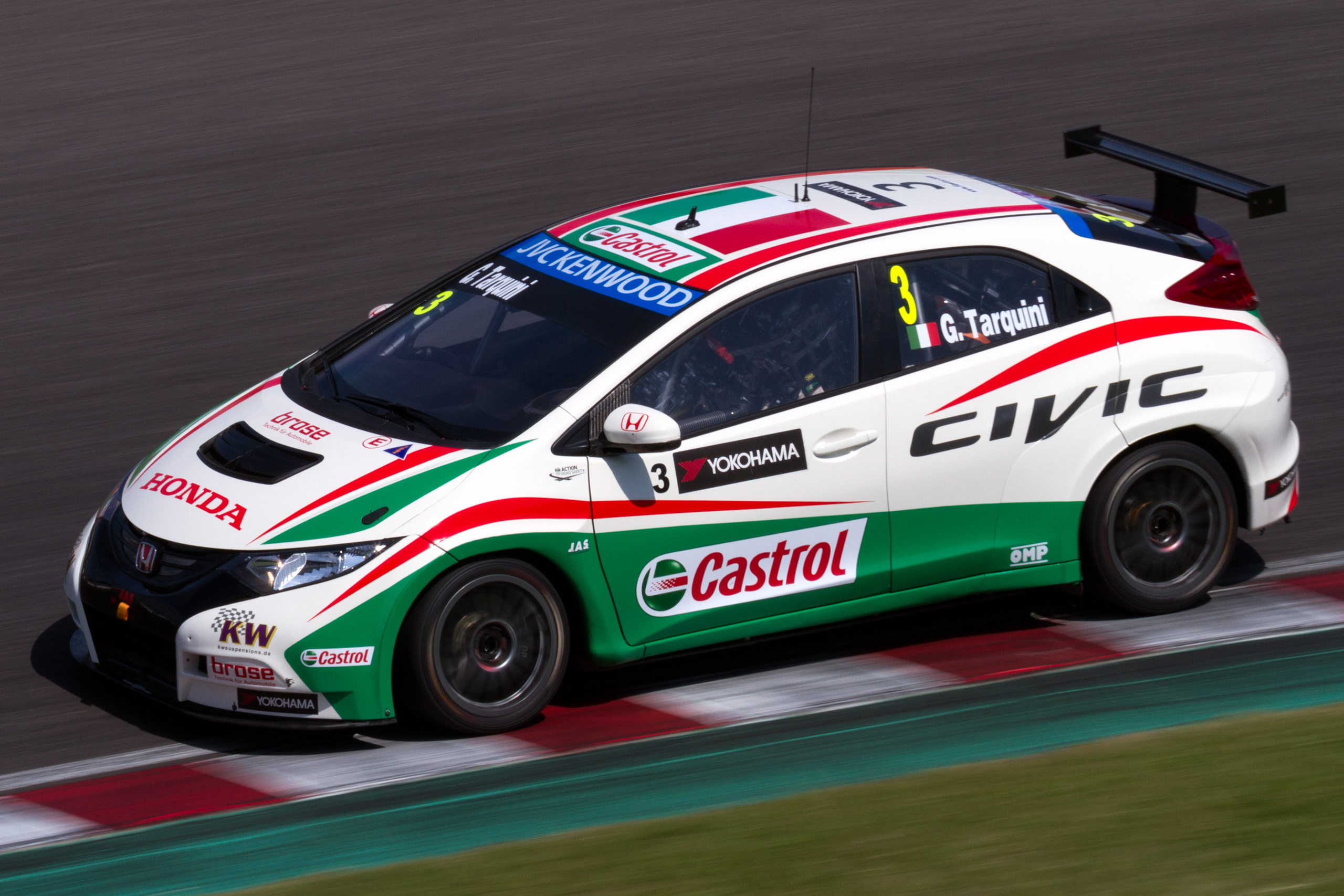 World Touring Car Championship 2013 Race of Japan: Gabriele Tarquini (Honda WTC Team)